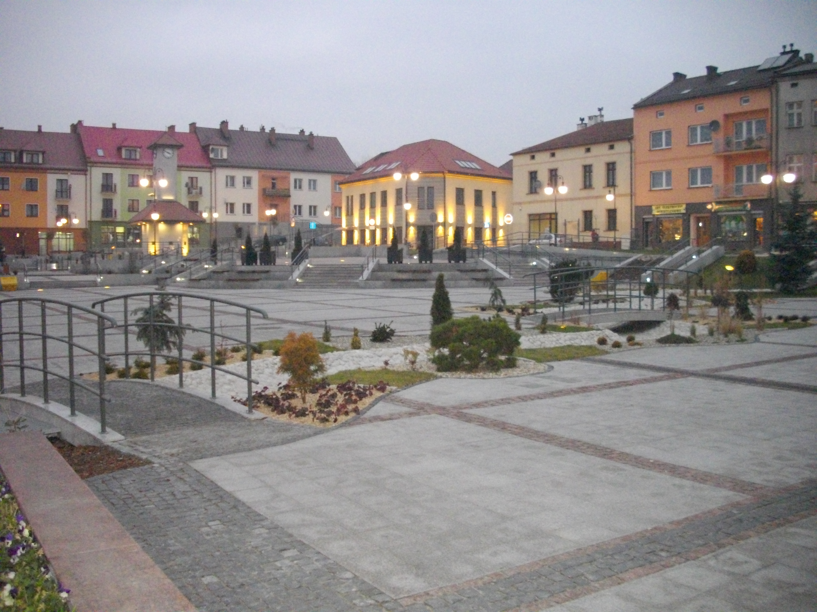 Market in Trzebinia